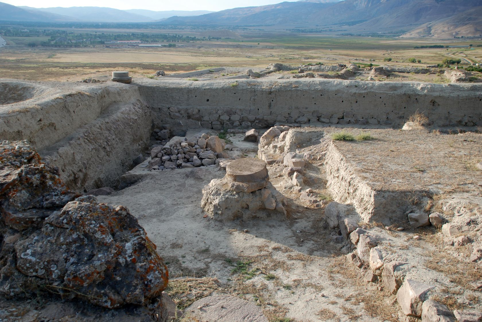 Altintepe, near Erzincan, apadana, west corner